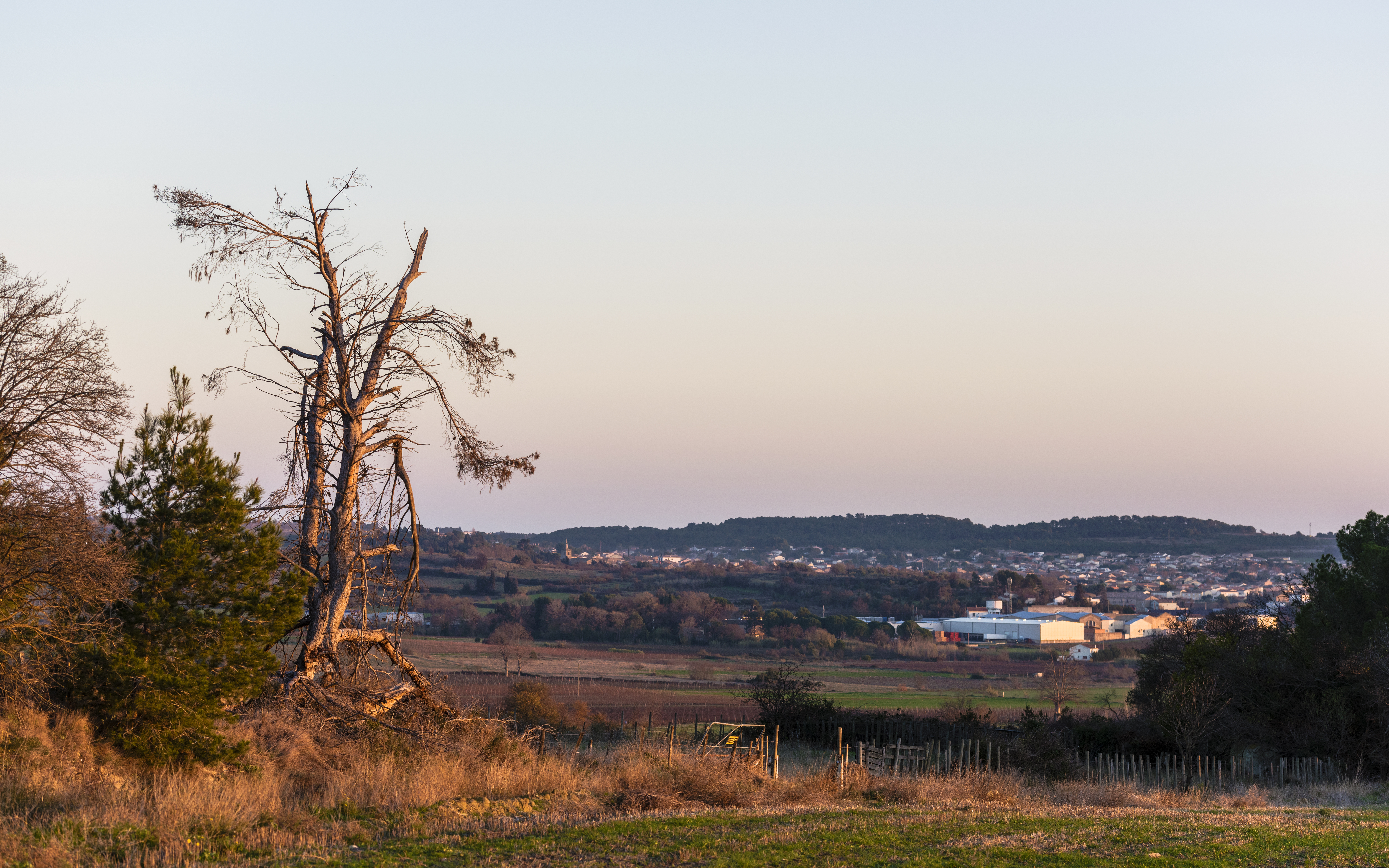 Landscape in the commune of Poilhes, the village of Nissan-lez-Enserune can be seen in the background. Hérault, France